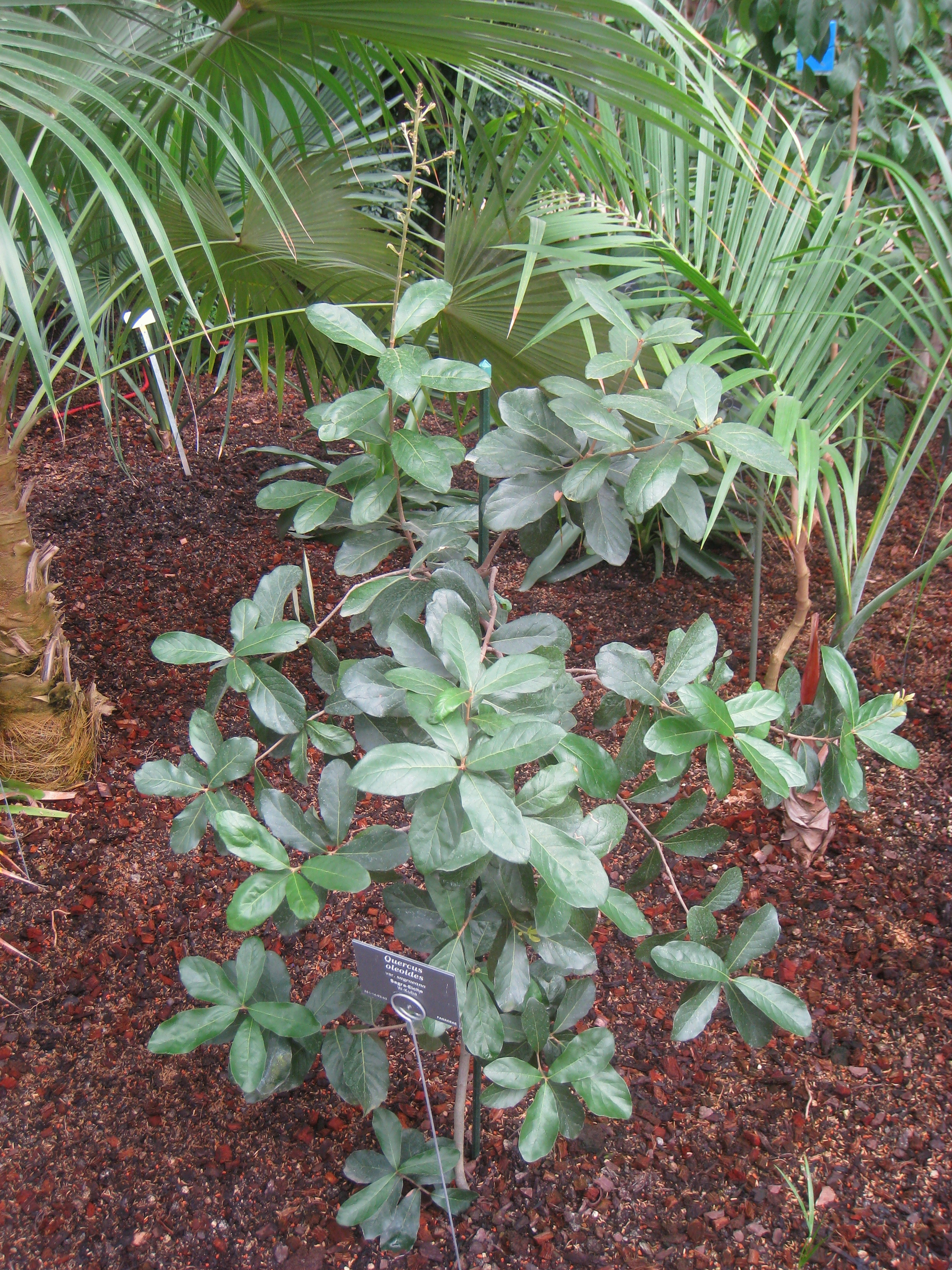 Quercus oleoides subsp. sagraeana (syn. Quercus sagraeana) in the Botanischer Garten, Berlin-Dahlem (Berlin Botanical Garden), Berlin, Germany.